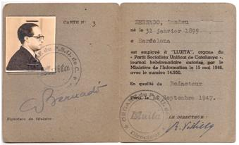 carnet de periodista d'Amadeu Bernadó